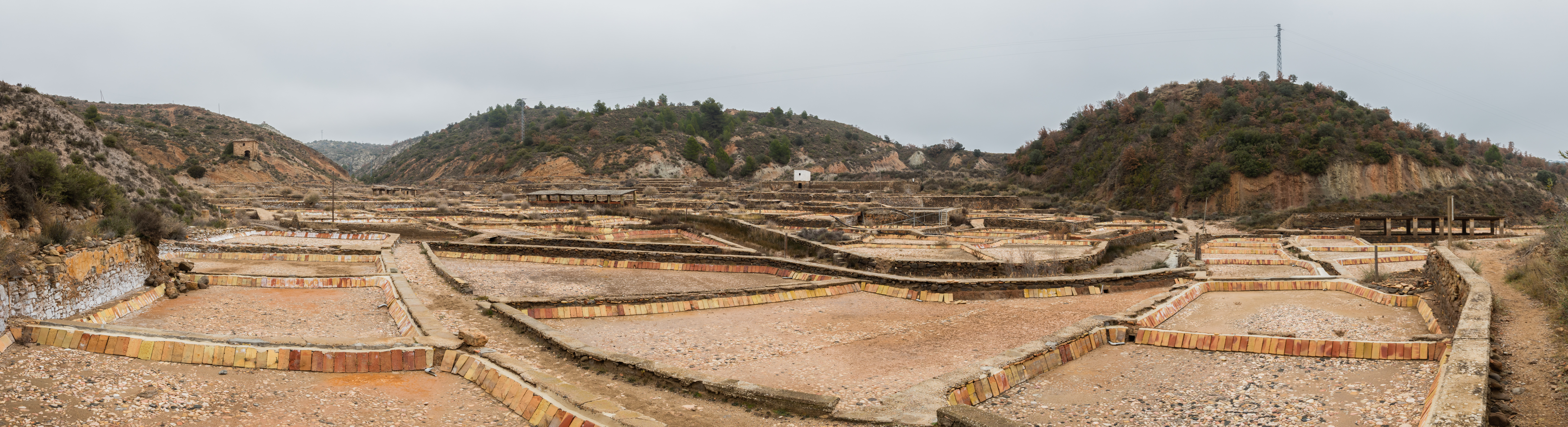 Salt evaporation ponds of Peralta de la Sal, Huesca, Spain